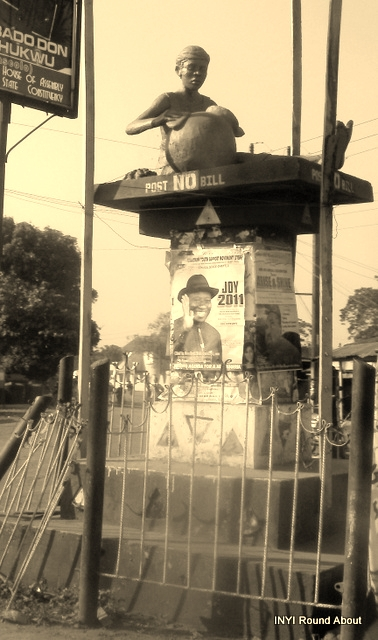 Bronze metal statue of a woman moulding a pot, depicting the industriousness of the Inyi woman and the pot making art for which she comes second to none. The statue was donated and erected by the Nnewi branch of Inyi towns Union [IDU at the time]. It was unveiled after the war about 1975